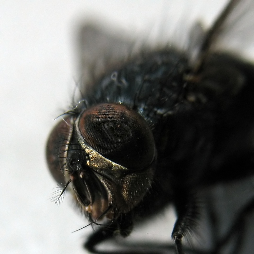 Dead fly's head